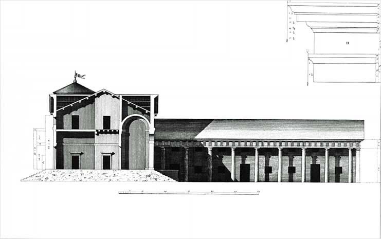 Villa Saraceno in Finale of Agugliaro, Province of Vicenza. Drawing from Ottavio Bertotti Scamozzi, 1778.